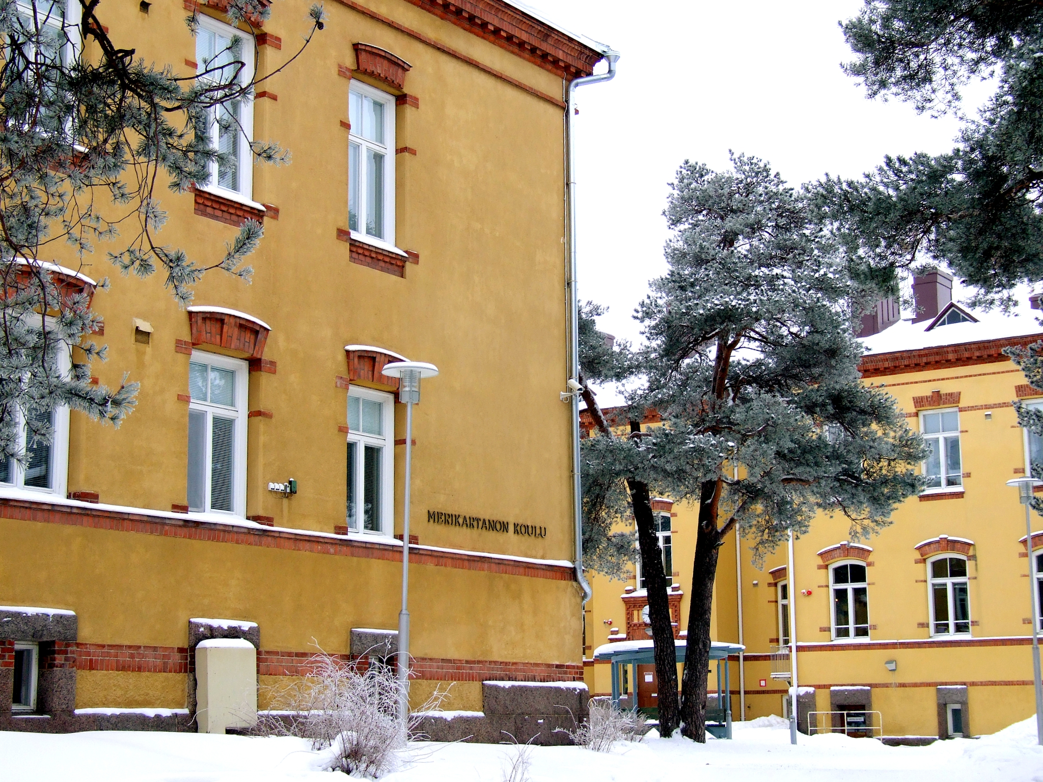 Merikartano school for hearing impaired in Oulu, Finland. The school is a state school it was founded in 1898. Almost all of the deaf children of the northern Finland attend this school. The building was designe by architect Theodor Grandstedt and built 1902. Weather: -5 °C.